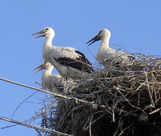 stork's nest with storks in Hungary - 2007